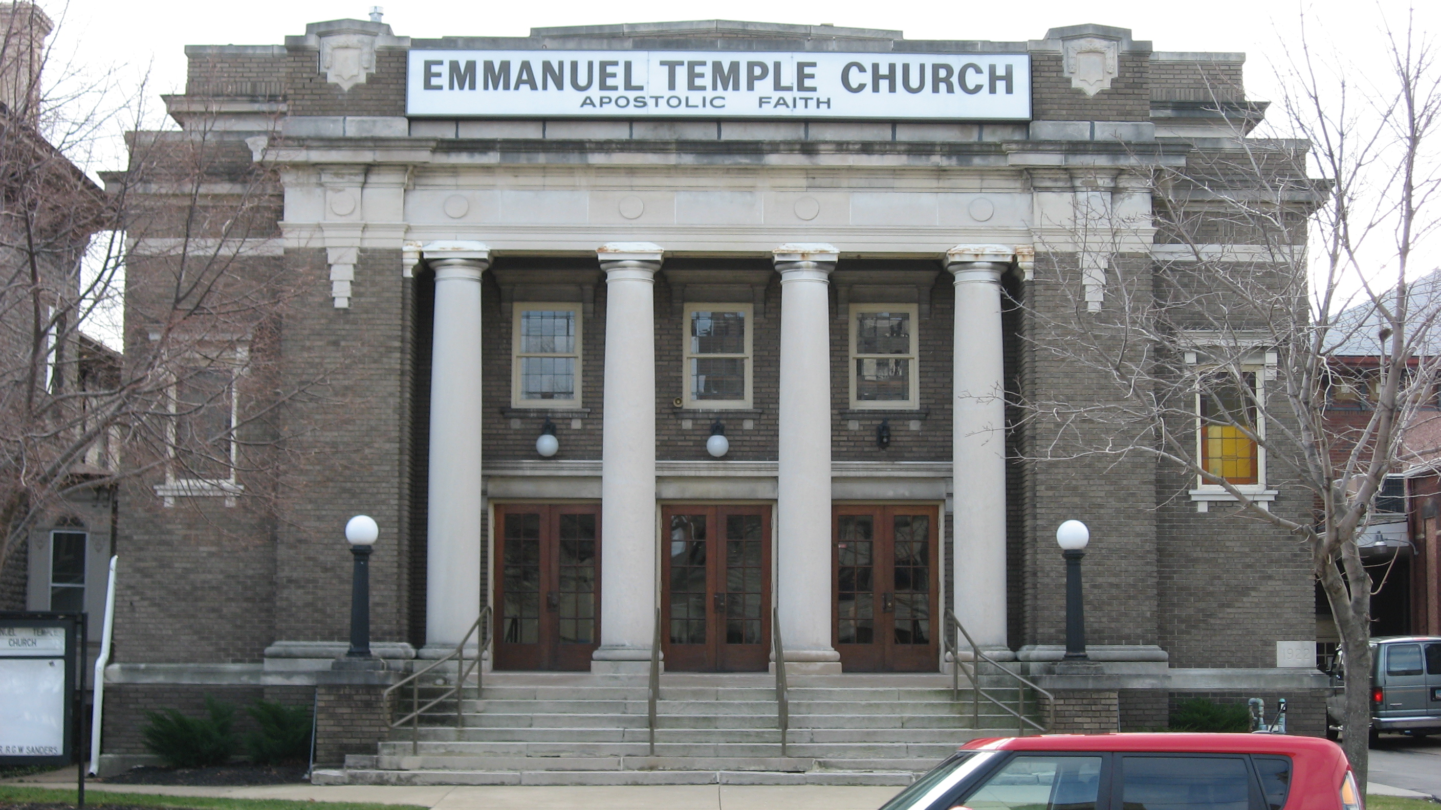 Front of the former First Church of Christ, Scientist (now Emmanuel Temple Church), located at 128 E. Adams Street in Sandusky, Ohio, United States. Built in 1922, it is listed on the National Register of Historic Places.